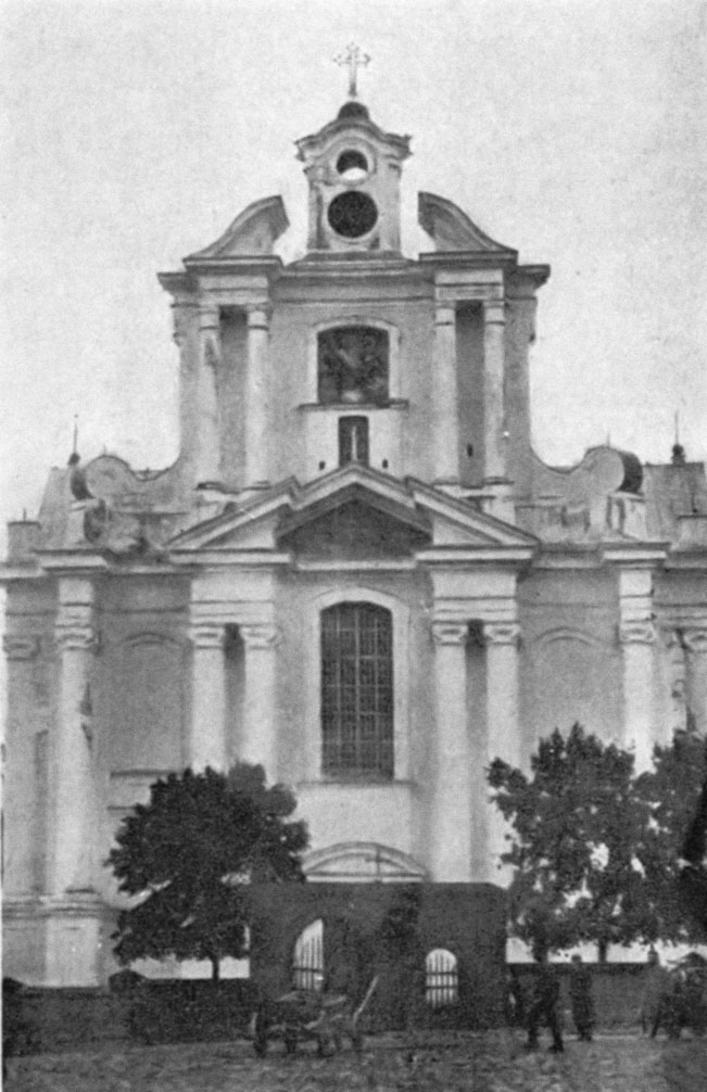 Non existent catholic church of the Holy Trinity in Sianno